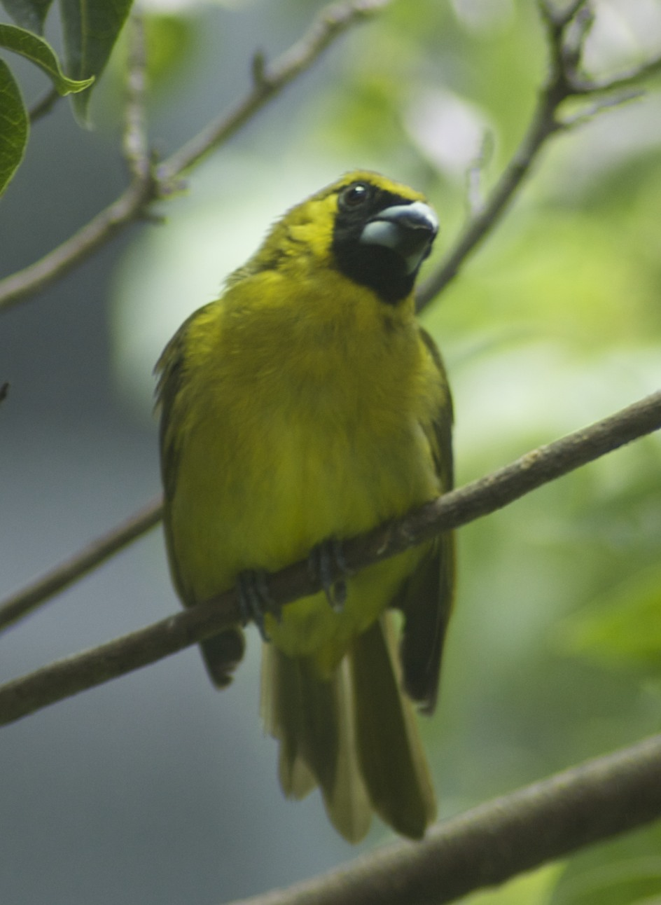 Caryothraustes poliogaster Black-faced Grossbeak